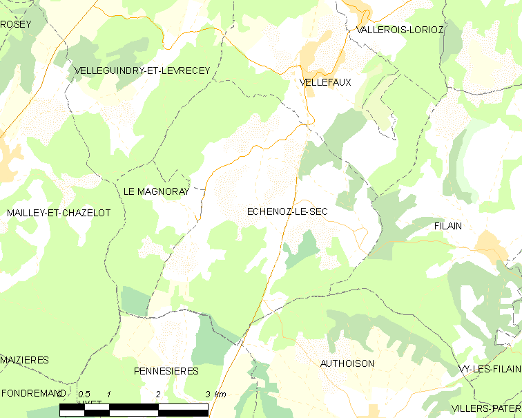 Map of French municipality